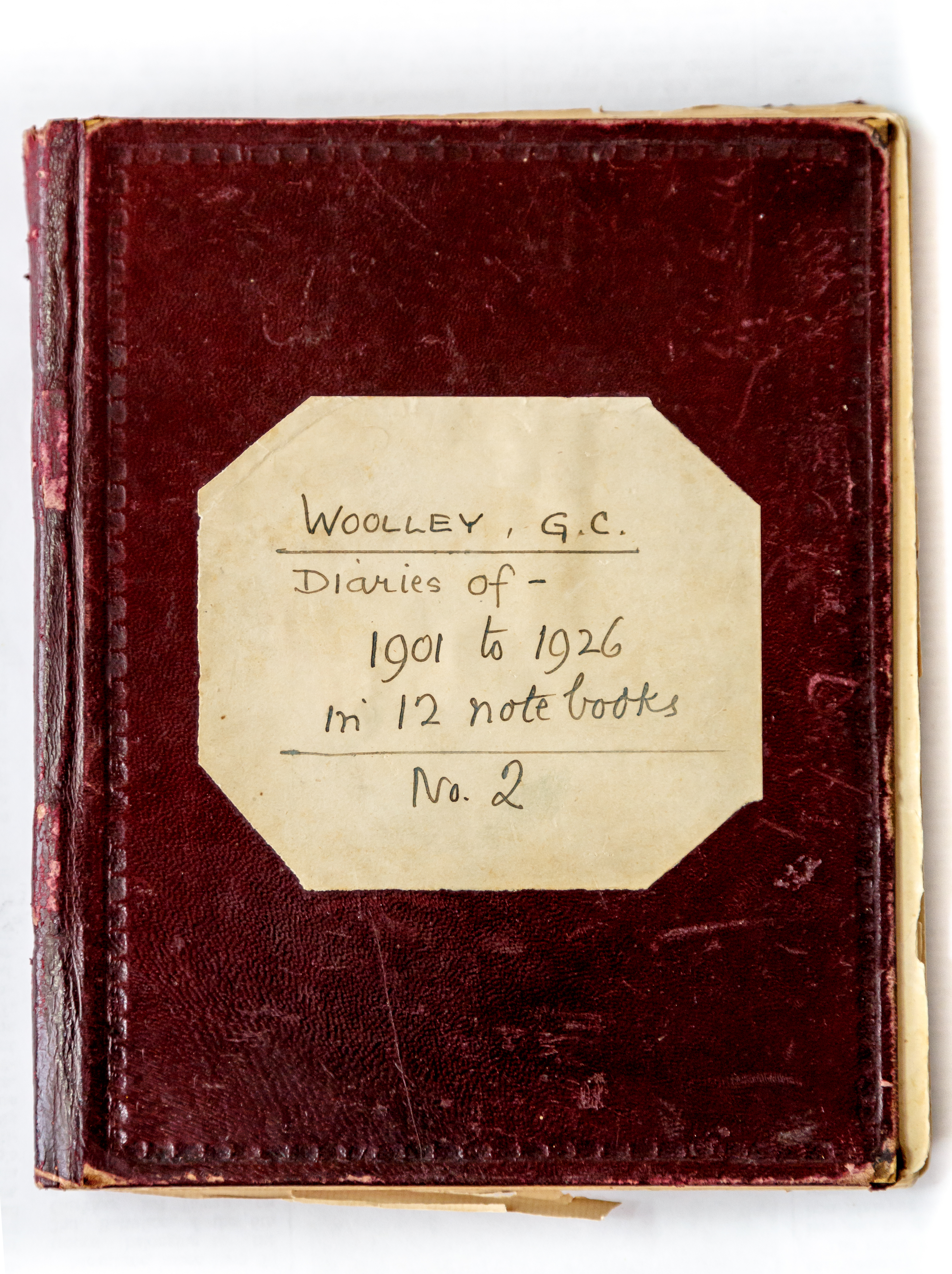 Diaries of G.C. Woolley, No. 2 in a series of 12 notebooks (1901-1926). Photo of the original diary which is in possession of Sabah Museum, Kota Kinabalu. Permit to take photo courtesy of Sabah Museum.